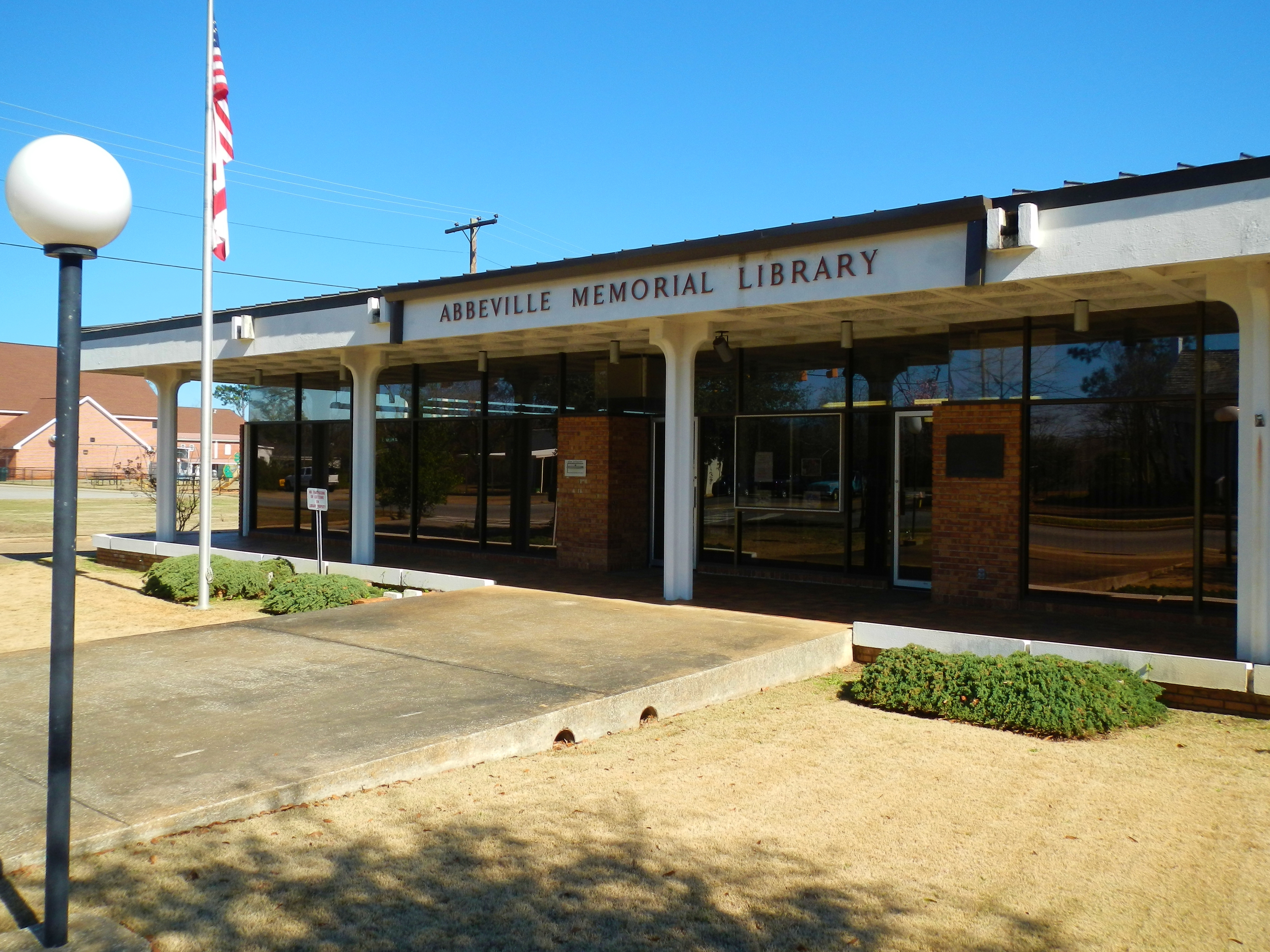 This is a photograph of Abbeville Memorial Library located in Abbeville, Alabama.